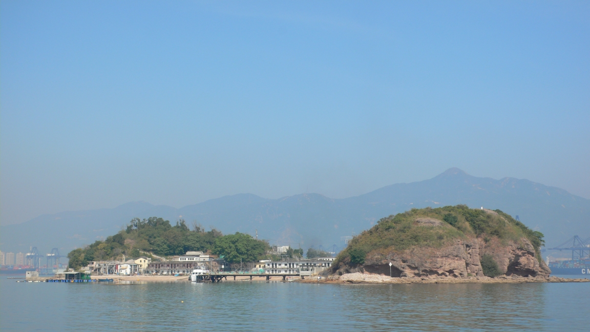 Ap Chau, an outlying island in Northern District in Hong Kong. The mountains and the port facilities in the background are in Shenzhen.